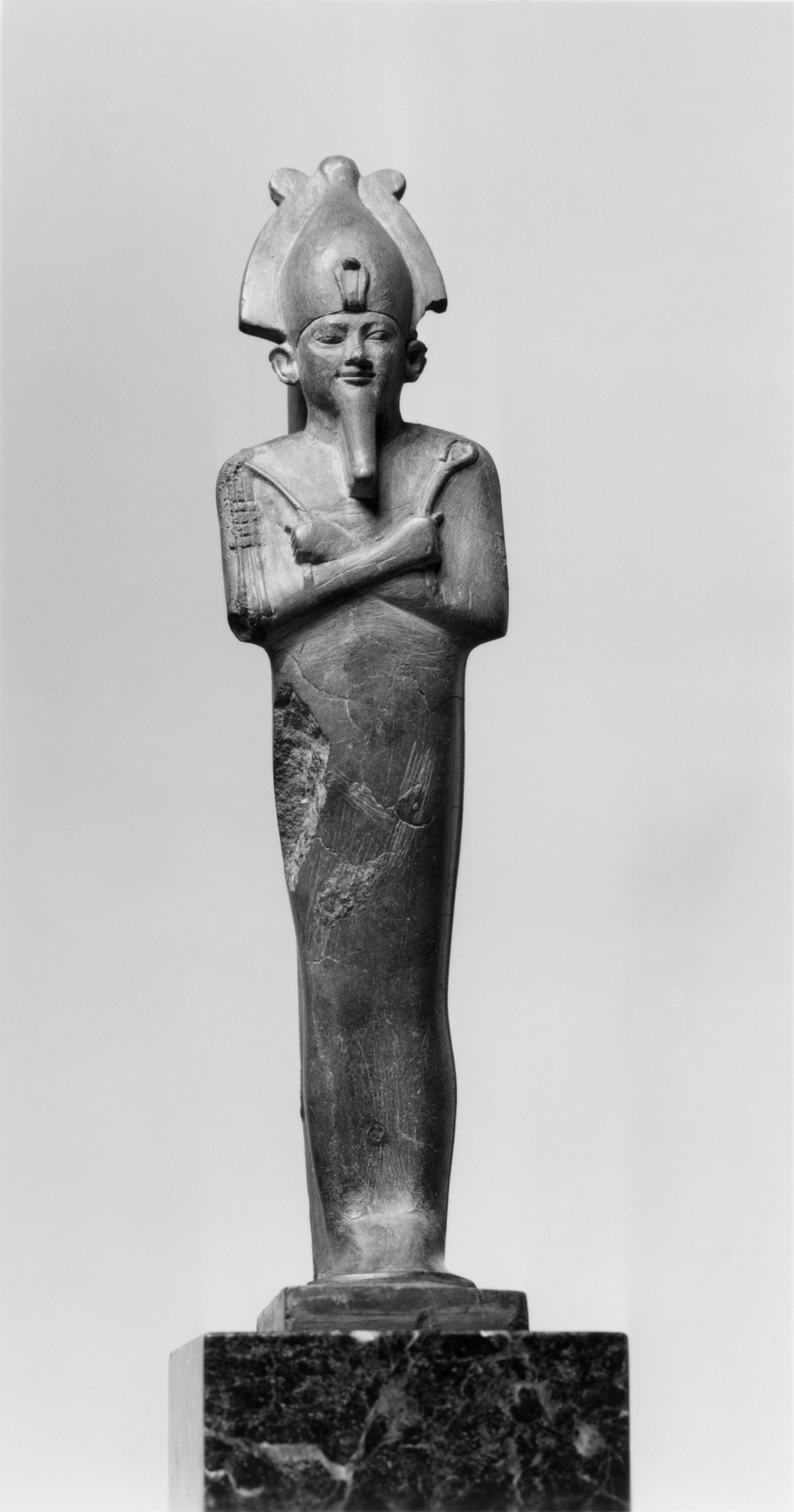 This statuette of Osiris standing is carved in the round. He has an atef crown with uraeus. His arms are crossed and he holds a whip in his left hand and a crook in his right. There is a stele at the back.